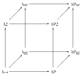 Lambda cube